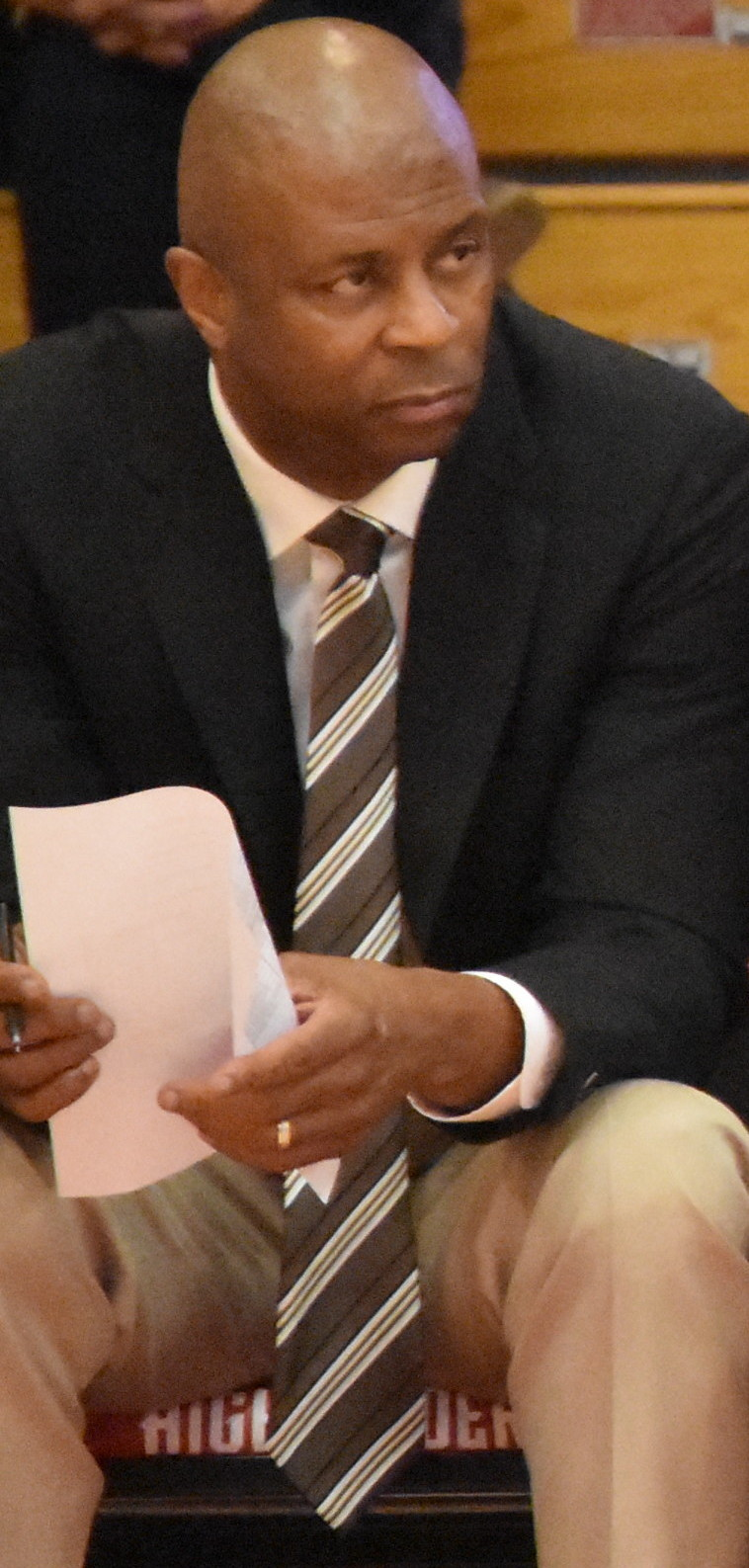 High Point basketball coaches